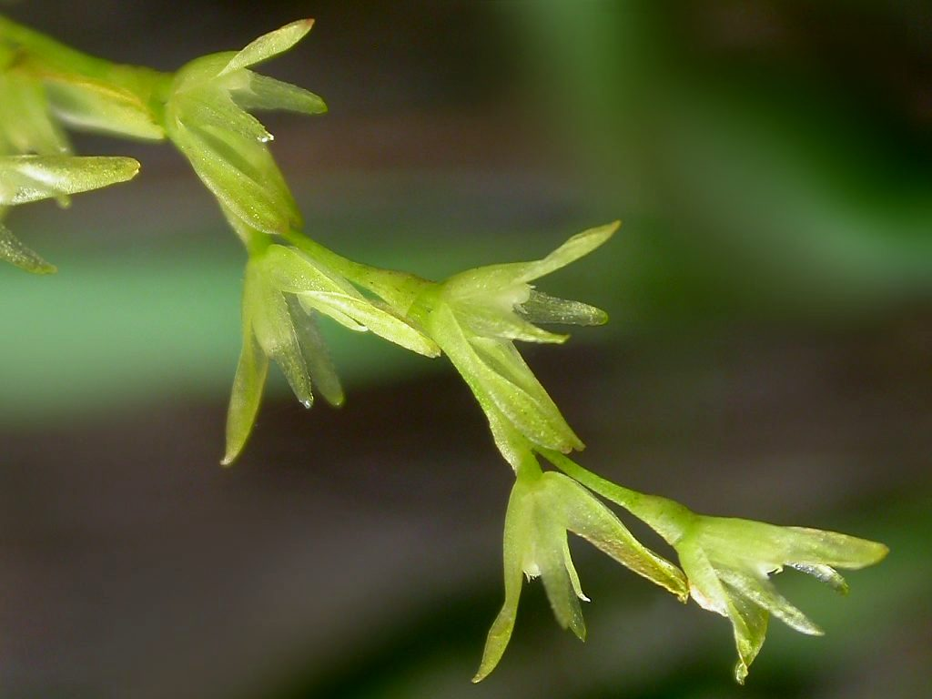 Arthrosia caldensis